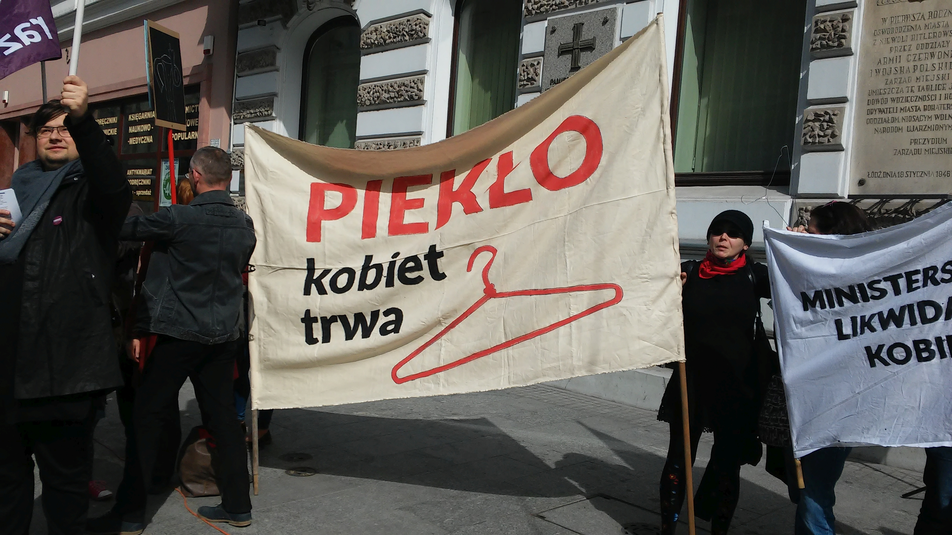 Protest against changes in abortion law in Poland, Partia Razem, April 3 2016, Łódź Piotrkowska Street